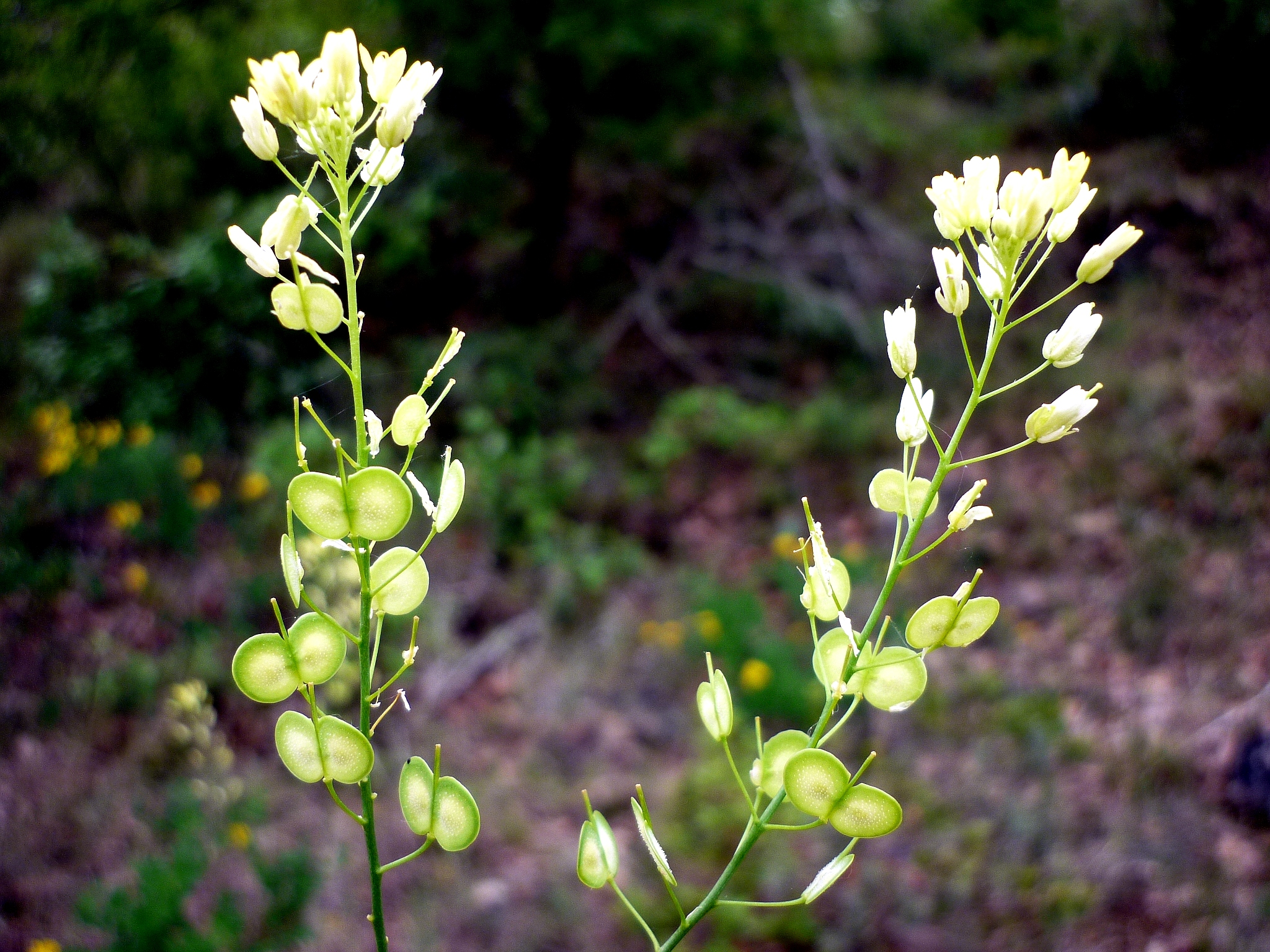 Biscutella laevigata. In Torà (Segarra-Catalunya). To 460 m. altitude